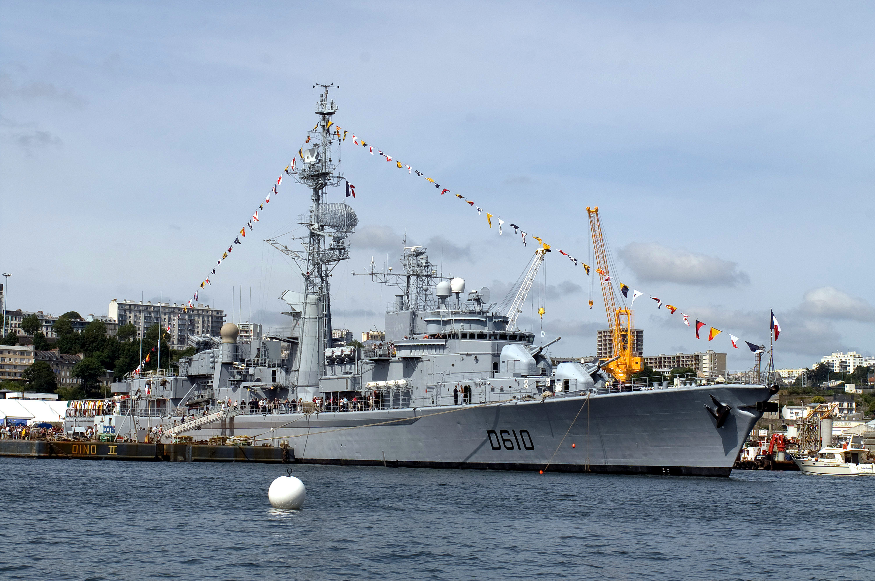 French frigate Tourville